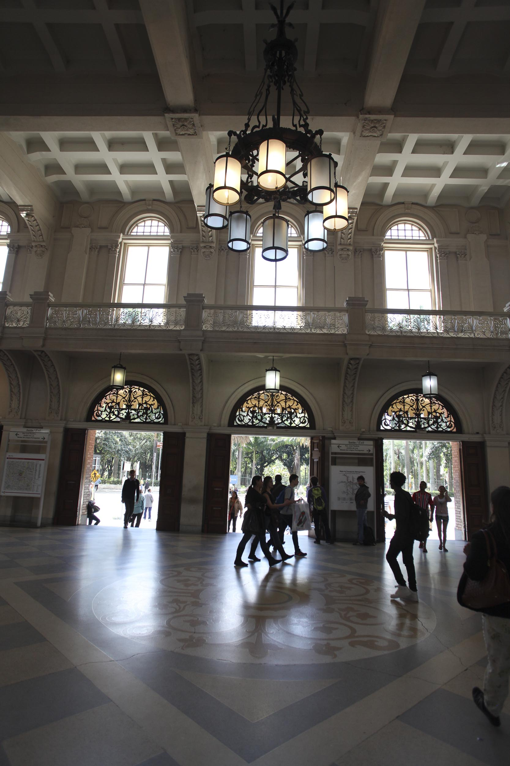 Light Station (Estação da Luz) - Hall of entry of the light station The station was delivered to the public on March 1, 1901. The structures were brought from England copy freely, Big Ben and the Abbey Westminster.Em 1982 the architectural complex Light station was listed by the Council for the Defense of Historical, Artistic, Archaeological and Tourism (Condephaat). The building occupies the Garden of Light and home to the Museum of the Portuguese Language and the interconnection of yellow and blue lines of the São Paulo Metro with trains of CPTM (Cia. Paulista Metropolitan Trains)